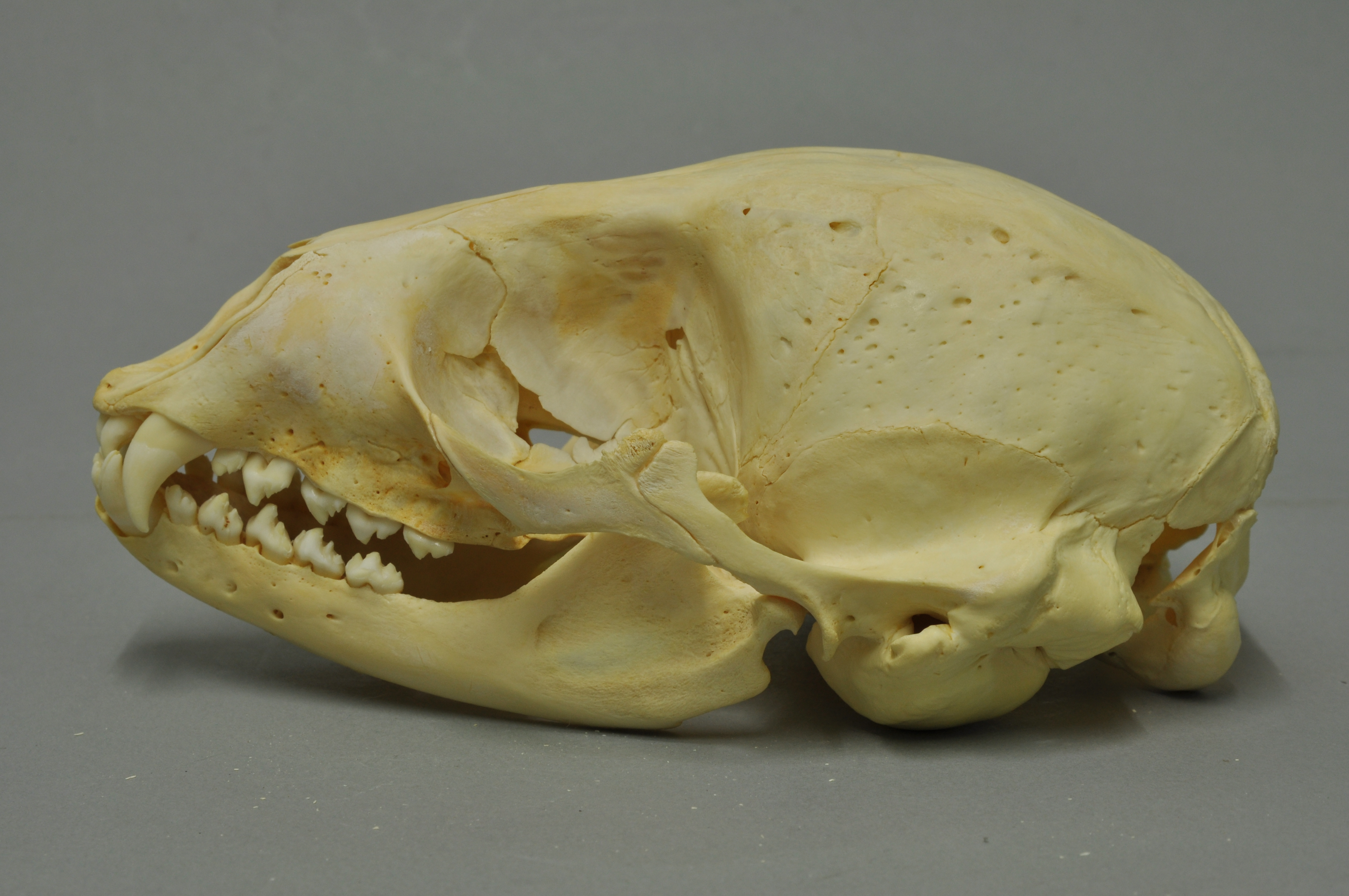 Harbor Phoca vitulina, skull, Coll. Museum Wiesbaden